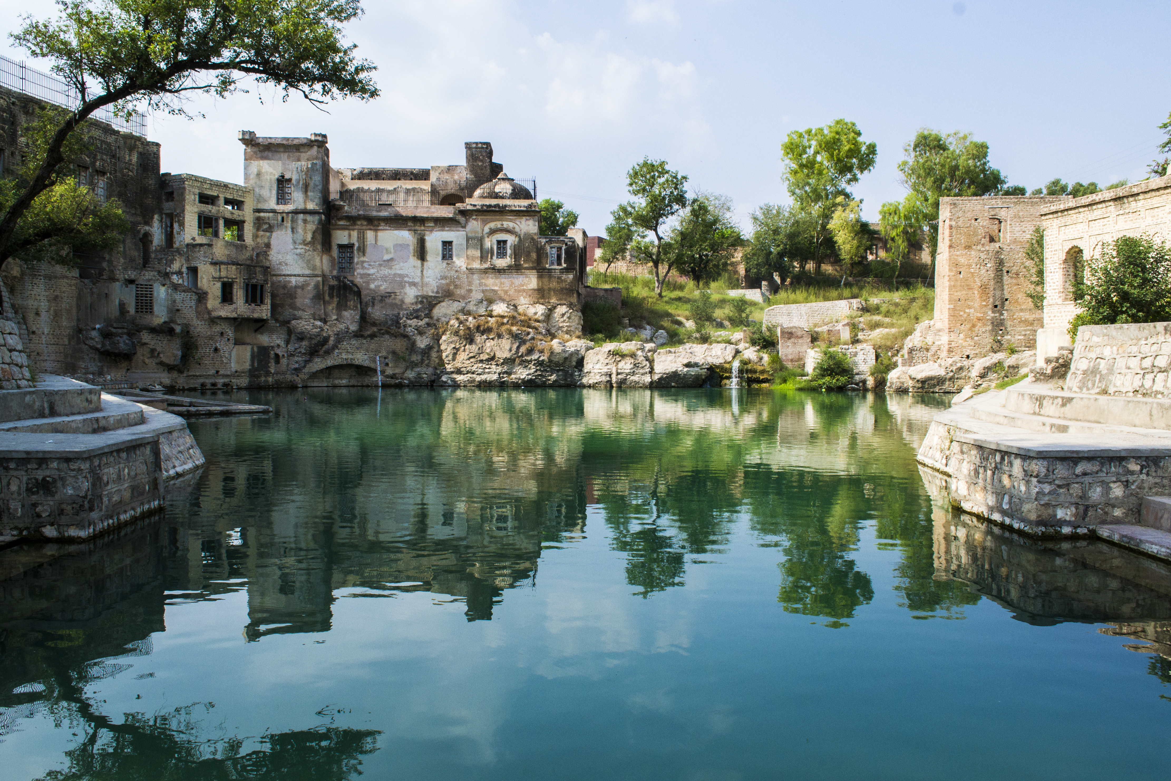 This is a photo of a monument in Pakistan identified as the PB-37